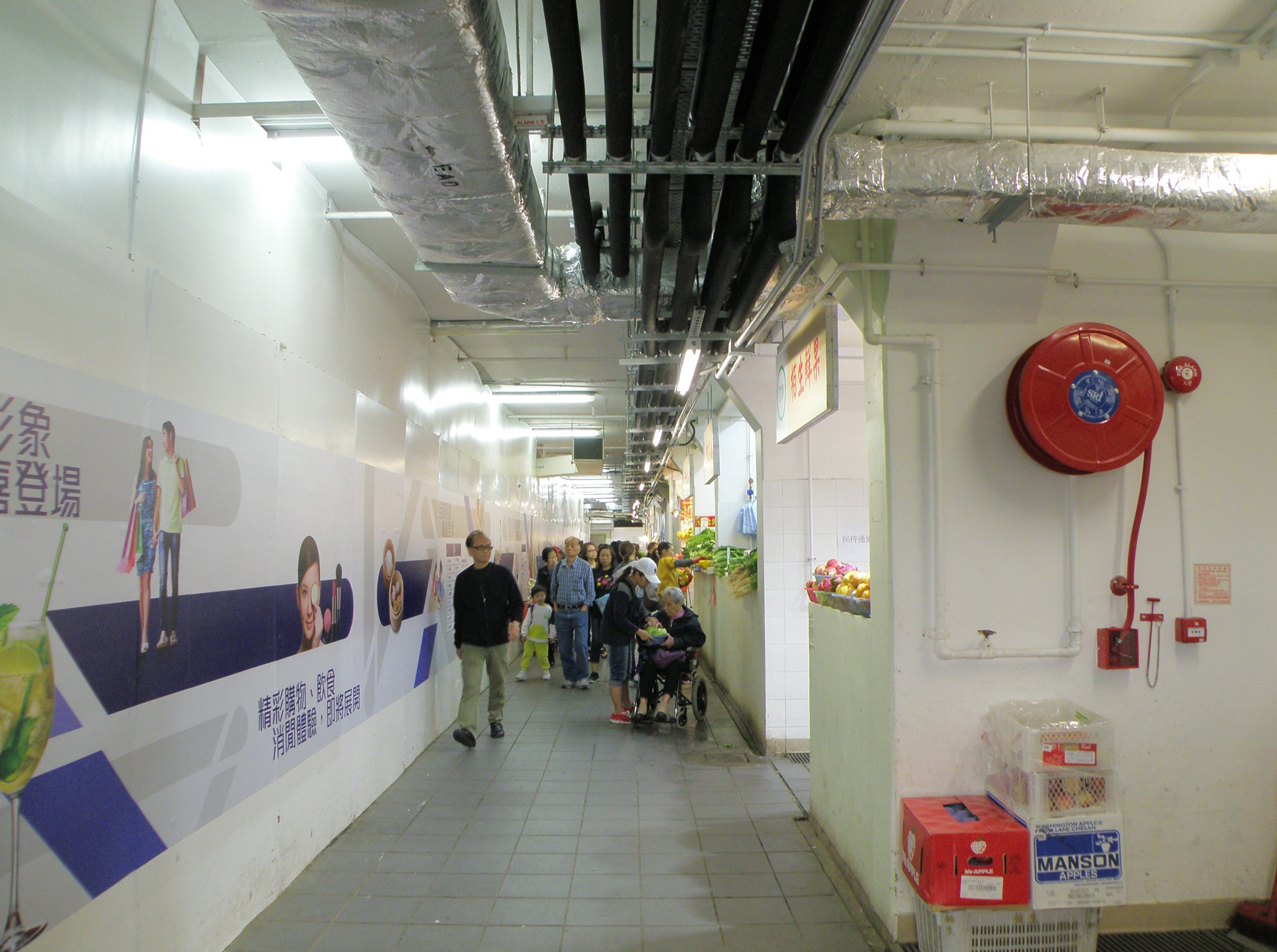 Butterfly Market in Tuen Mun, Hong Kong.